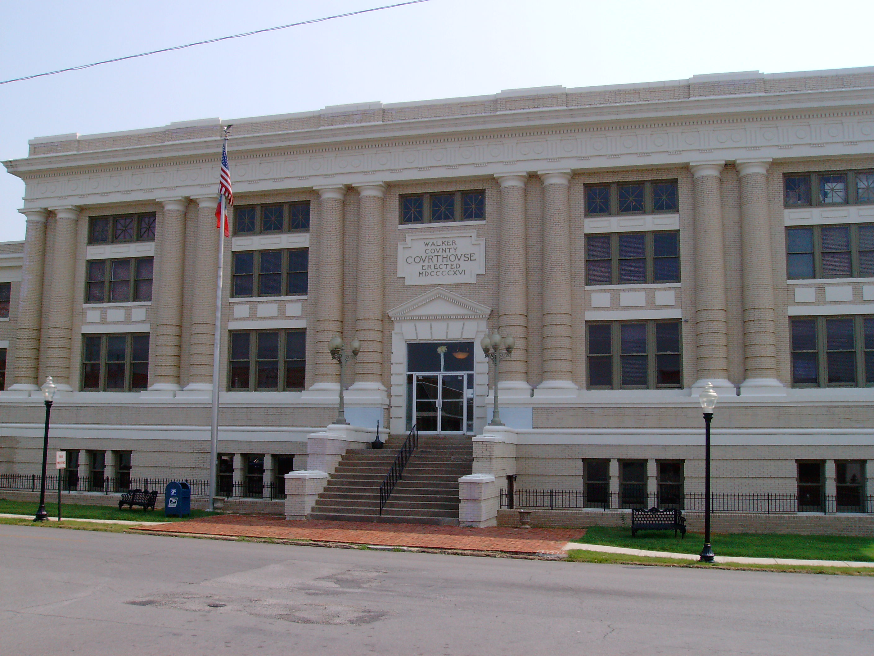 This is a photograph of the Walker County, GA courthouse in LaFayette Georgia.